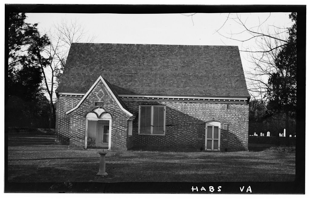 taken from - product of the HABS, part of the US government, and consequently in the public domain